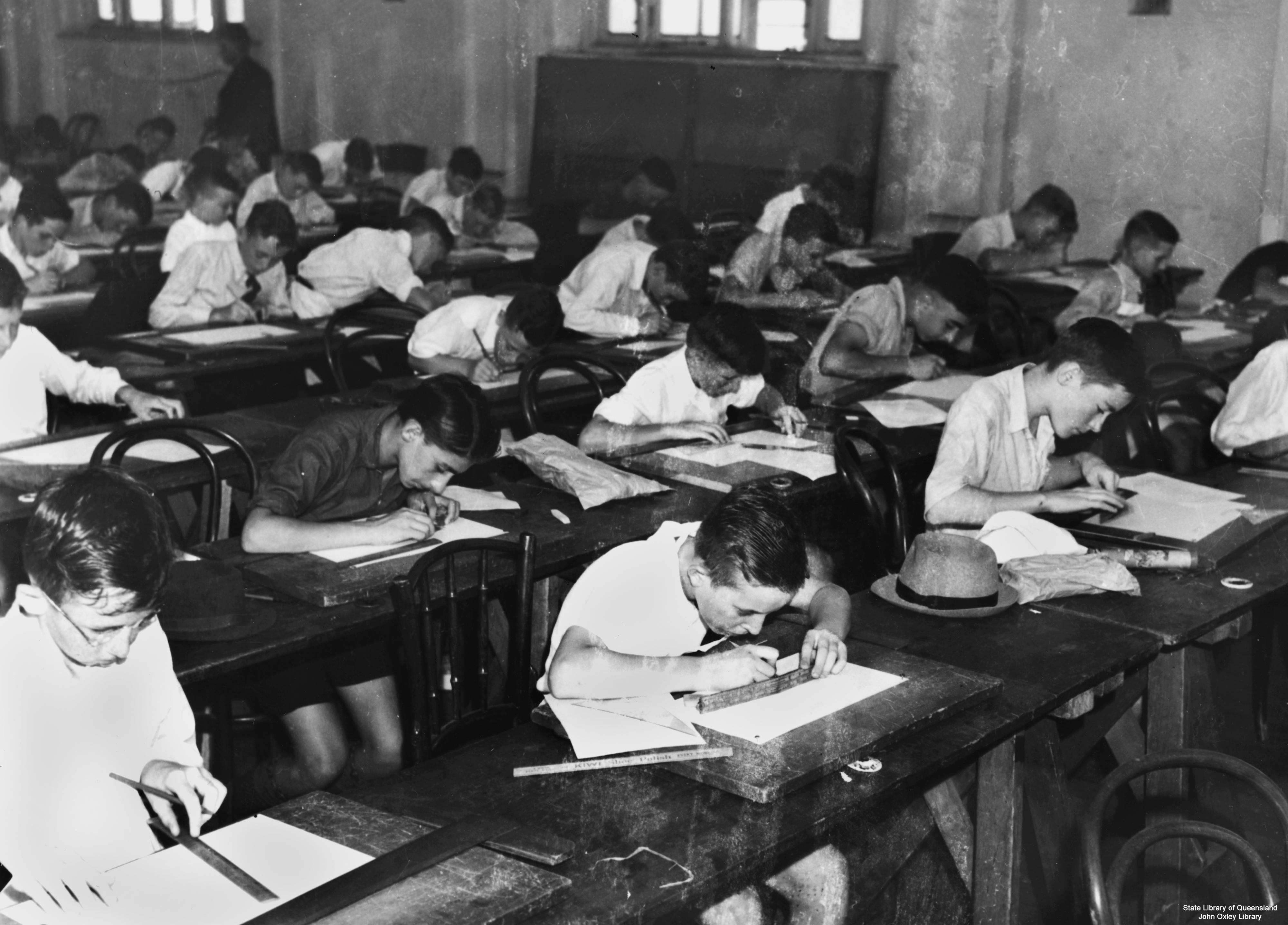 Title: School children doing exams inside a classroom, 1940 Description: Children sitting at their school desks in a classroom doing scholarship examinations, 16 April 1940. Note: High resolution version of this image available for download View this image at the State Library of Queensland: Information about State Library of Queensland’s collection